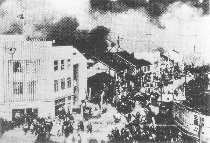 Great Fire of Tottori (1952).